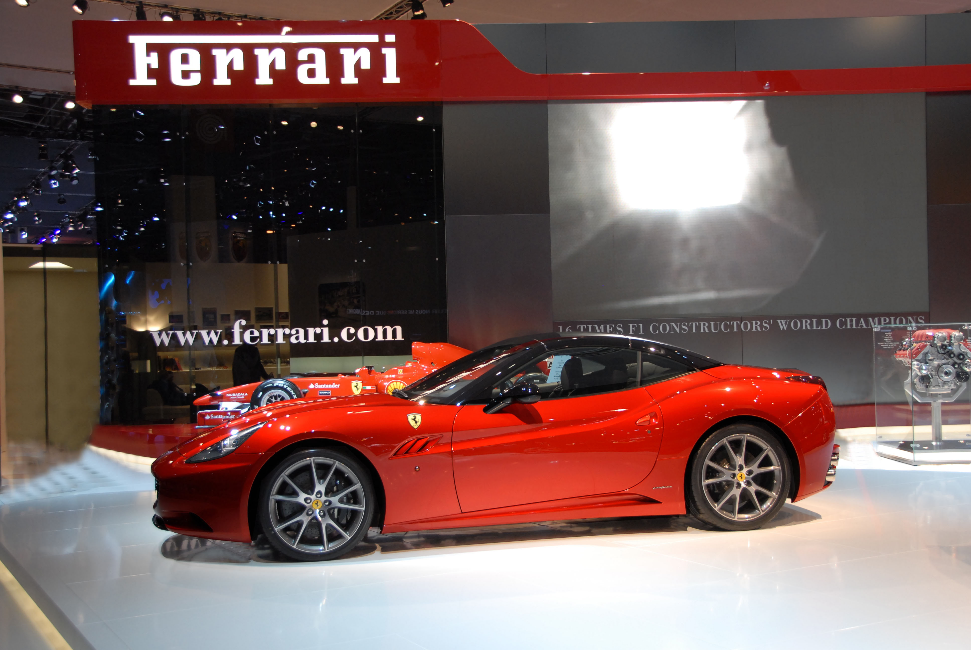 Ferrari California at 2010 edition of the "Mondial de l'automobile" in Paris.